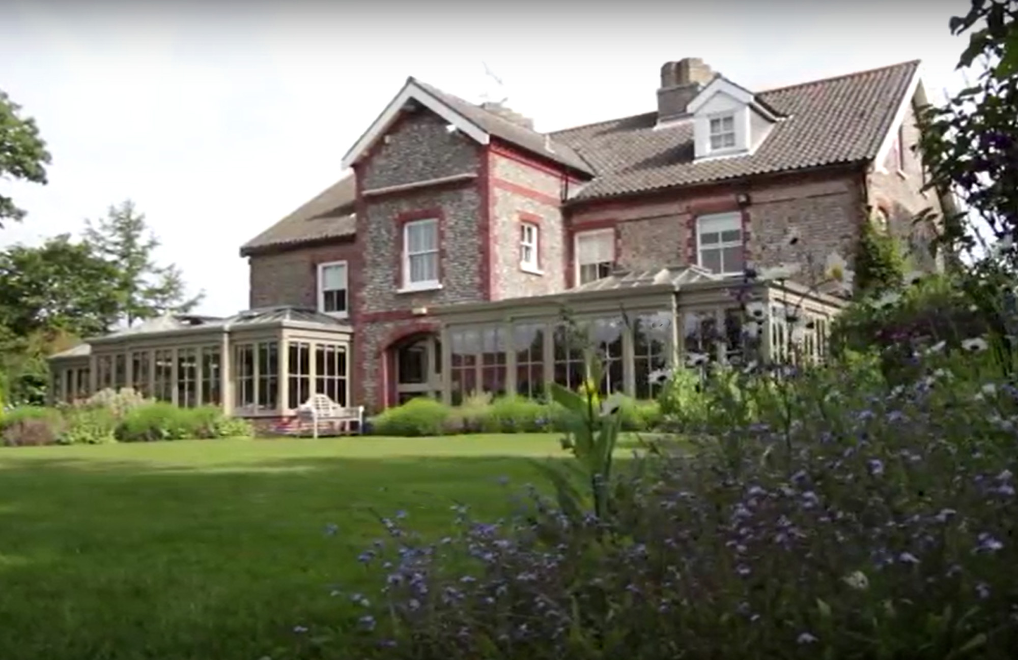 Morston Hall is a hotel and restaurant owned by the chef Galton Blackiston, and is located in the village of Morston, Norfolk, England.